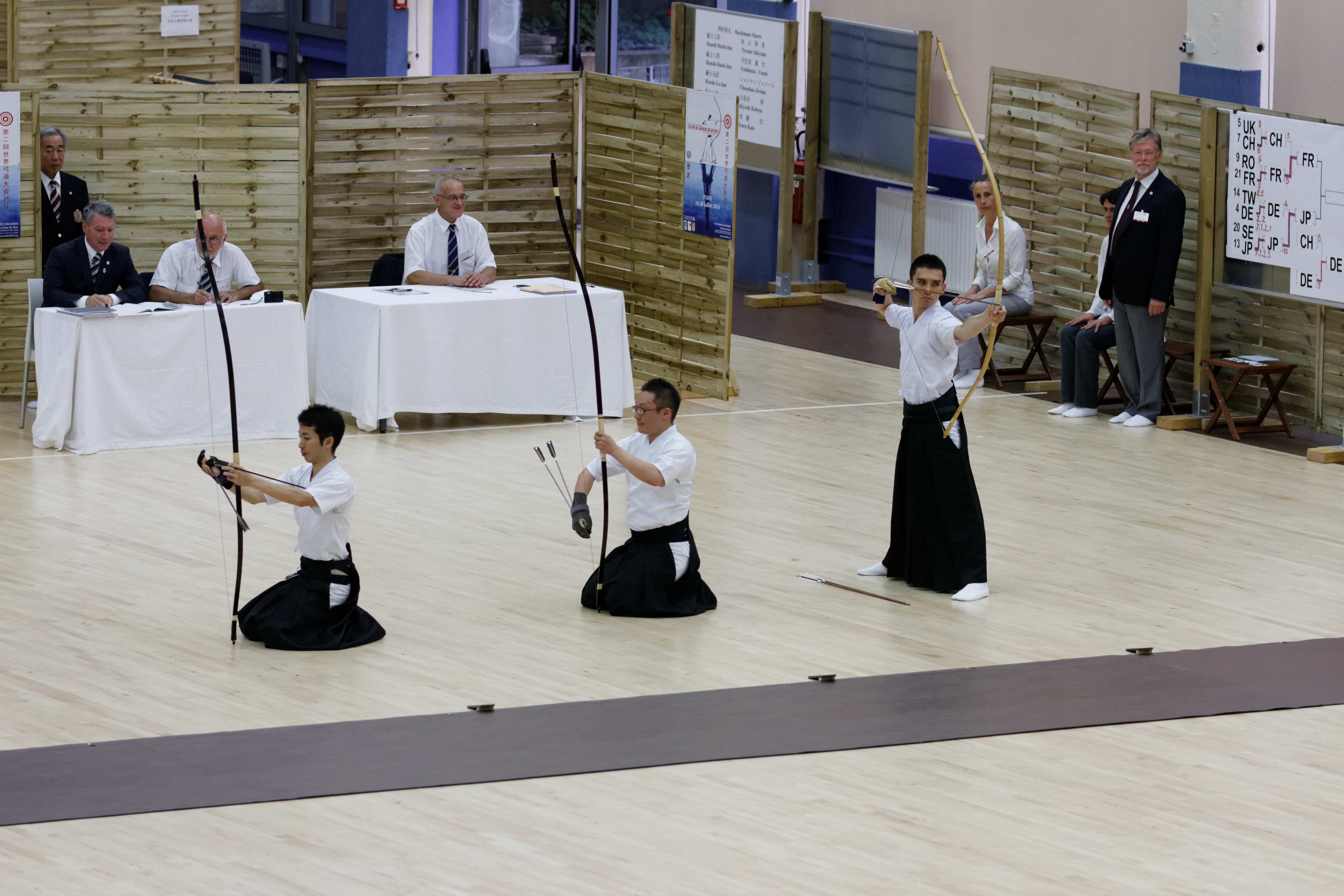 Second 2014 Kyudo World Cup, Paris. Team Competition.